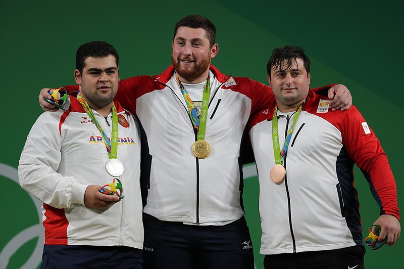 Weightlifting at the 2016 Summer Olympics - Men's +105 kg. Lasha Talakhadze from Georgia wins gold medal. Gor Minasyan from Armenia - silver. Irakli Turmanidze from Georgia - bronze medal.